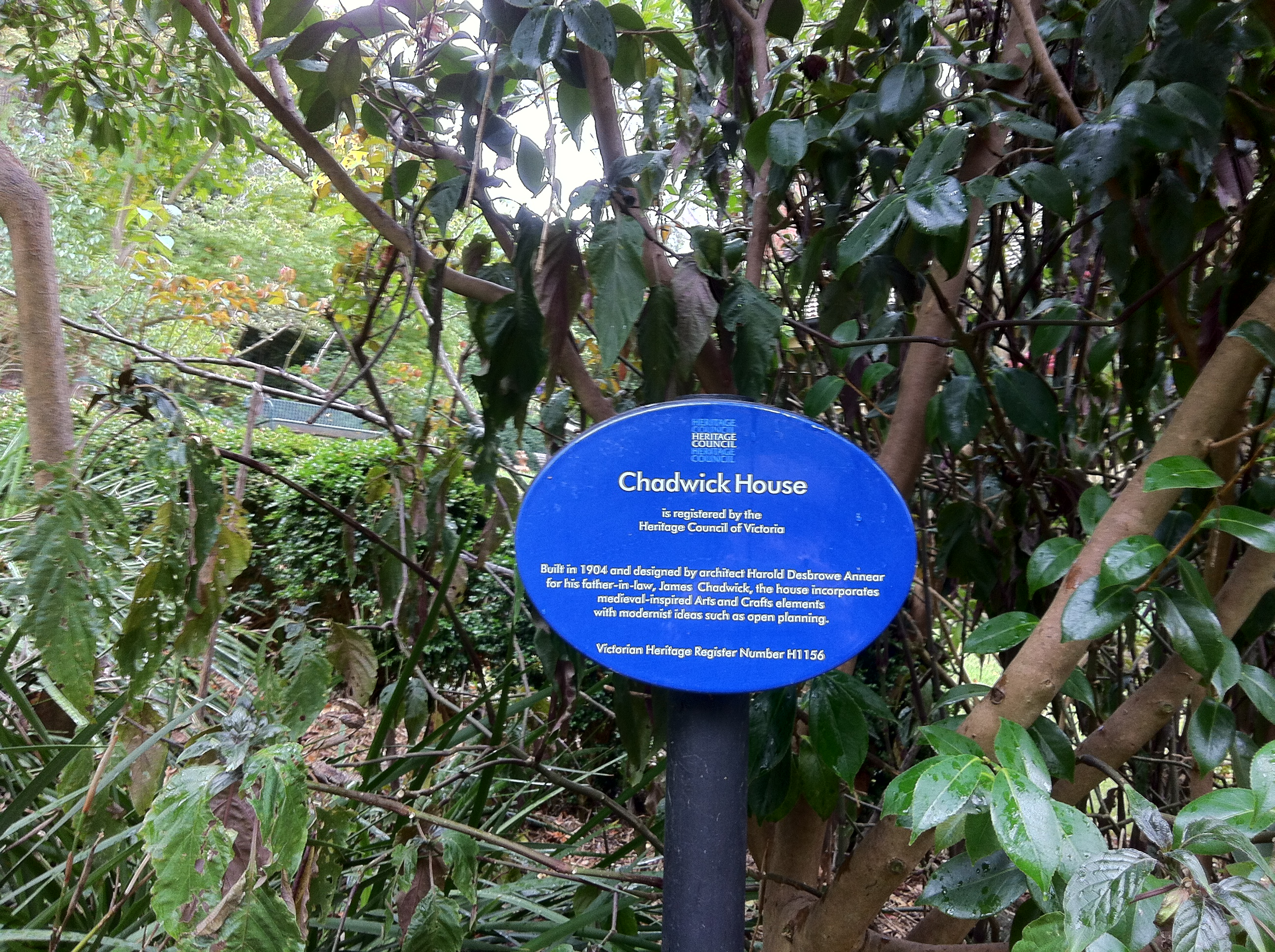 Chadwick House Victorian Heritage Listing Sign